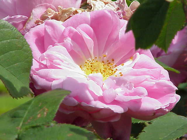 Species: Rosa sp. Family: Rosaceae Cultivar: Jeanne de Montfort, Robert 1851 Image No. 154